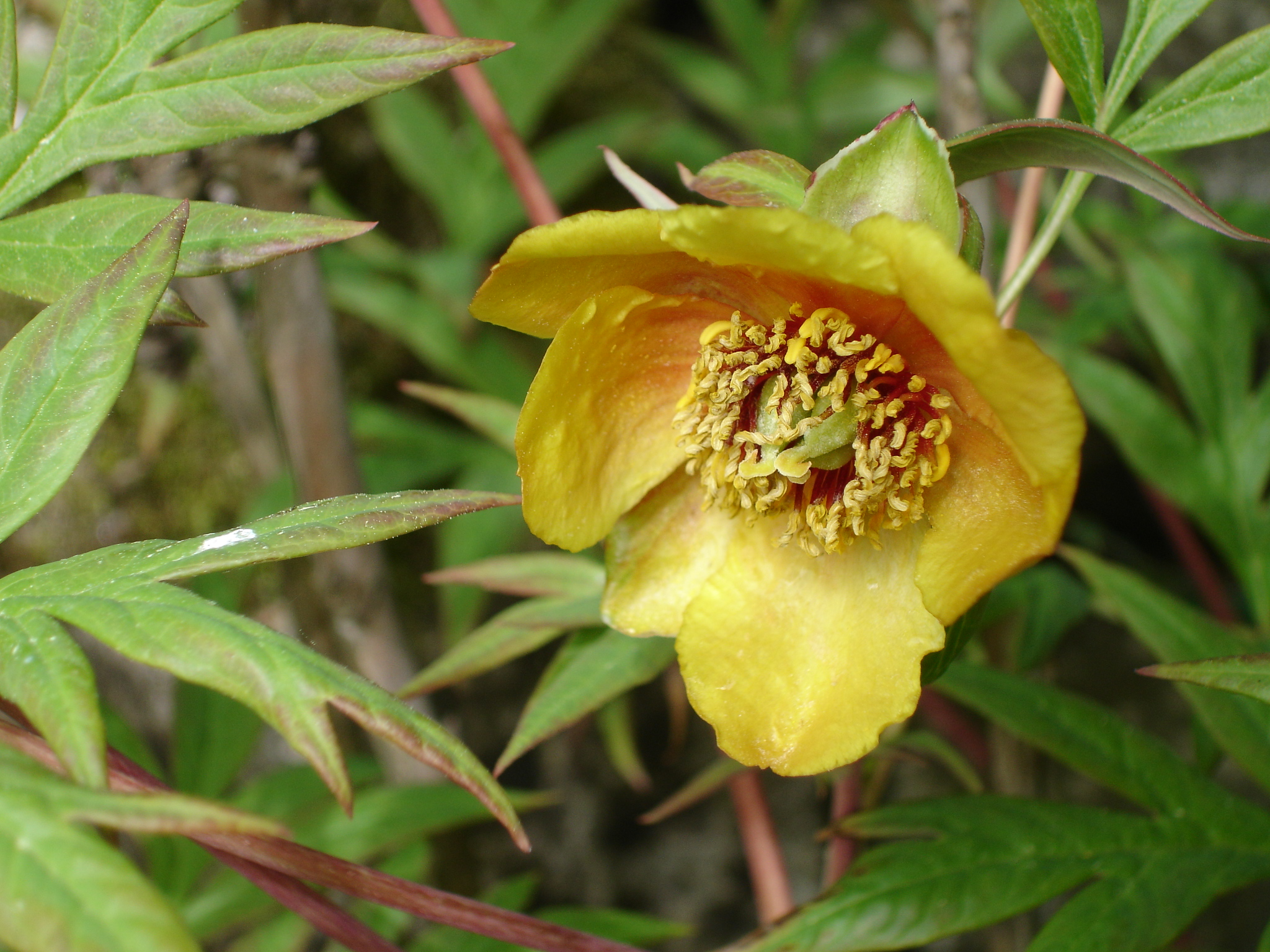 Paeonia delavayi, yellow form